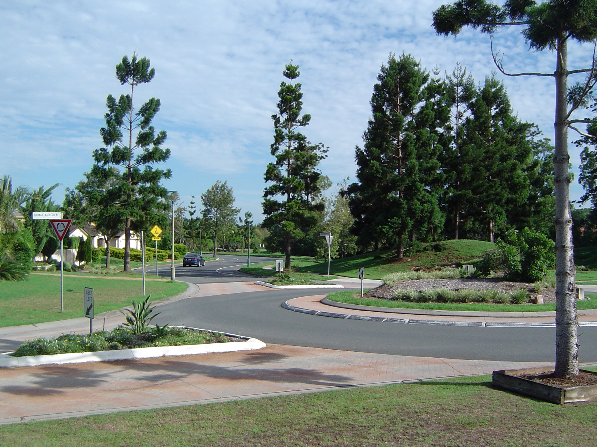 Photo of Sinnamon Road and roundabout, Sinnamon Park, Brisbane, Queensland, Austraila